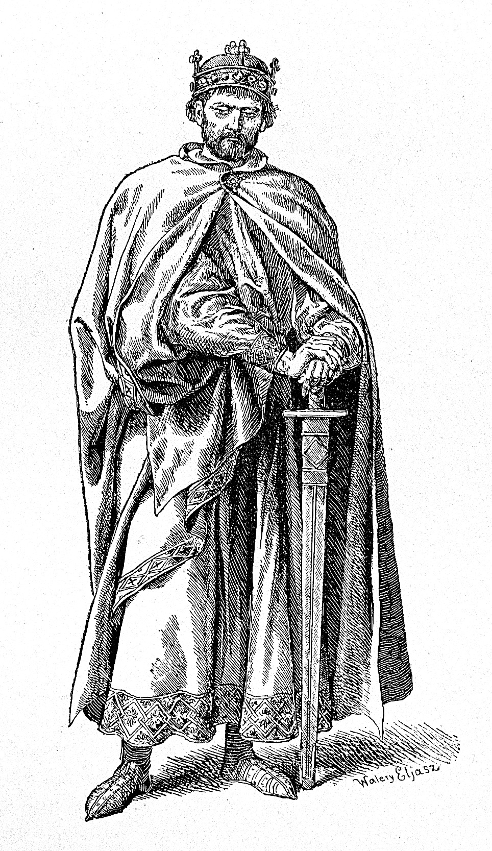 Mieszko II, King of Poland